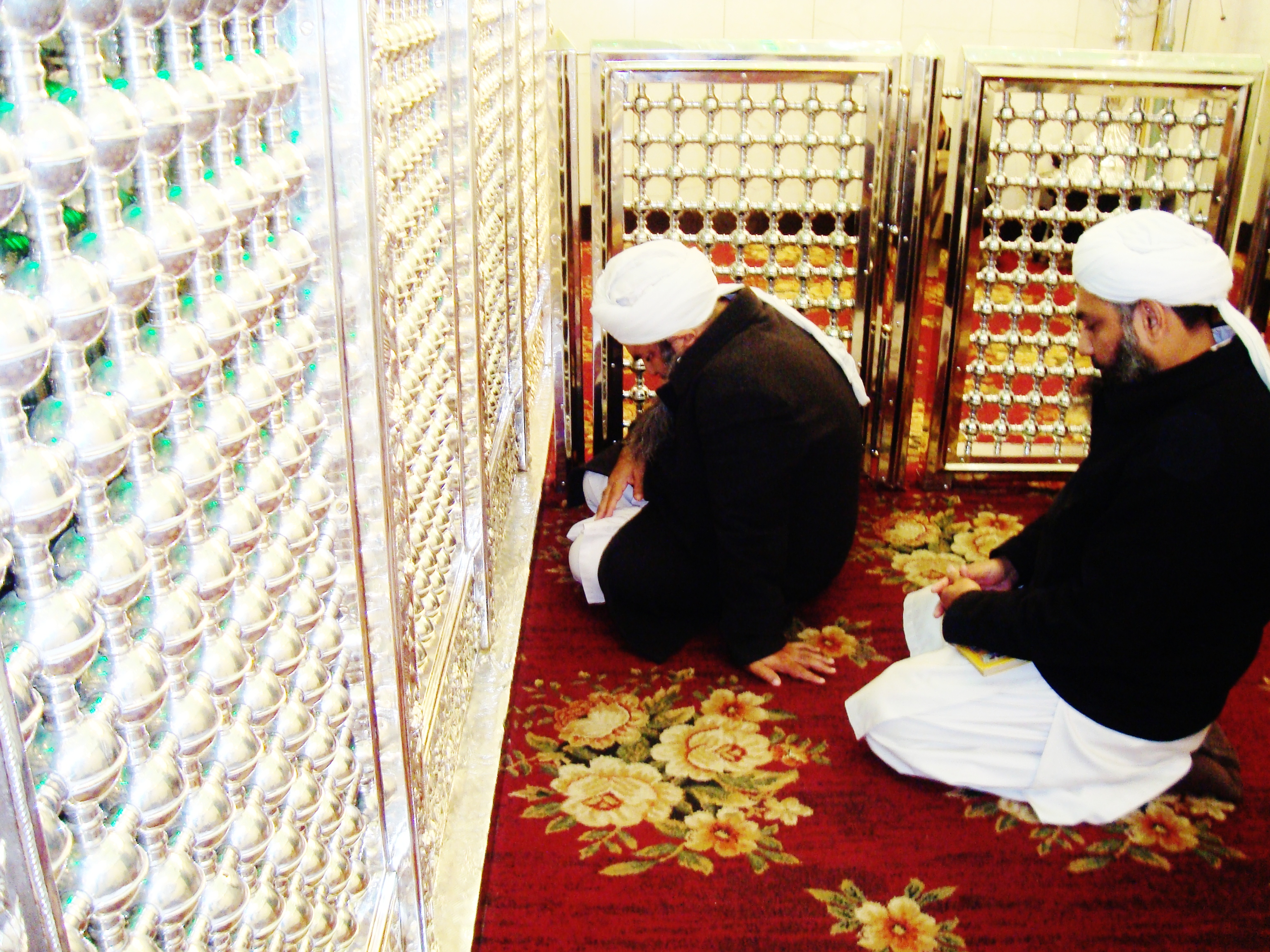 Shaykh Mohsin Munawar Yousafi Al Naqshbandi at the Mausoleum of Shaykh Abdul Qadir Jilani